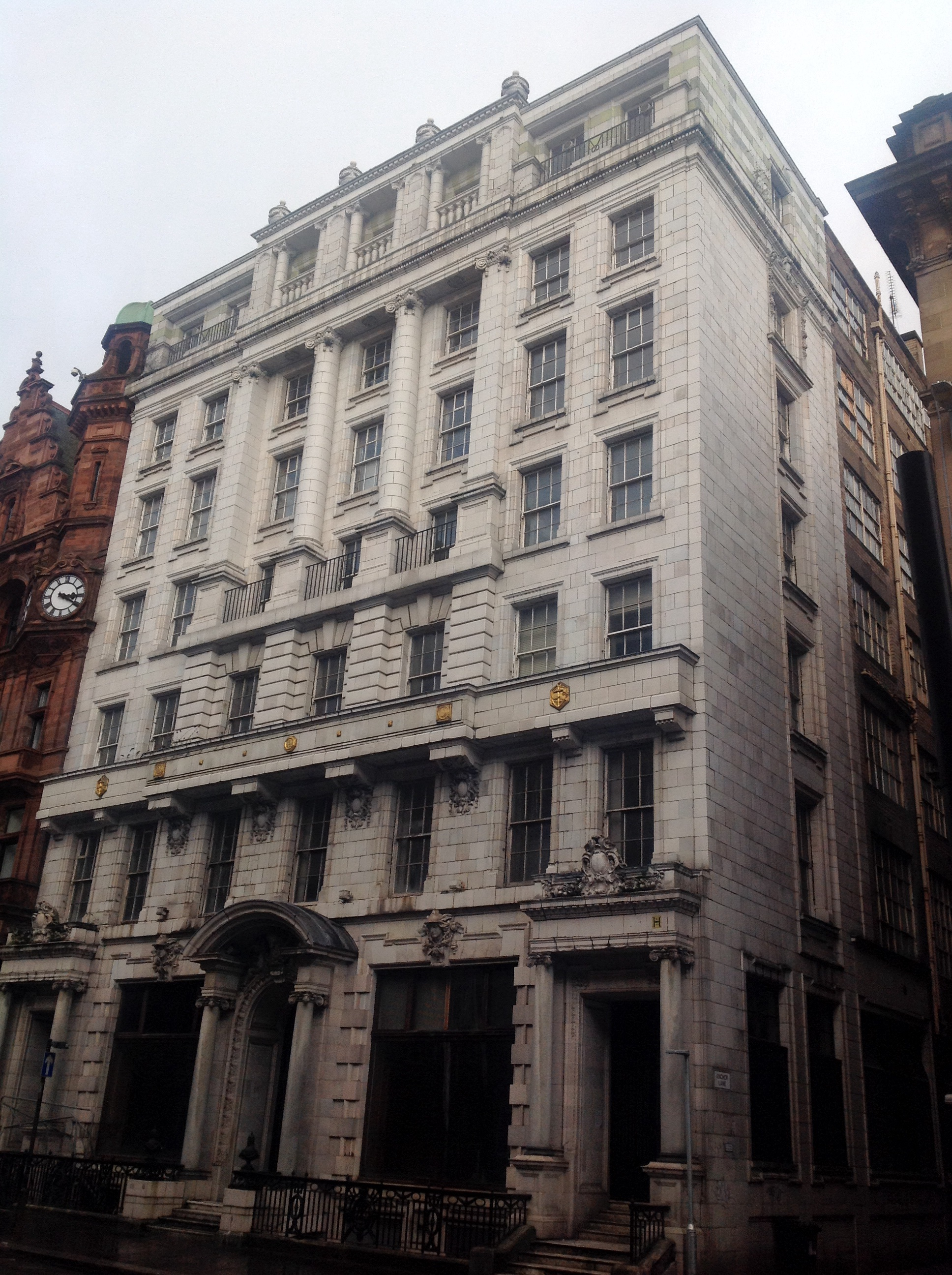 Anchor Line building, St Vincent Place, Glasgow, by James Miller (1905-7)